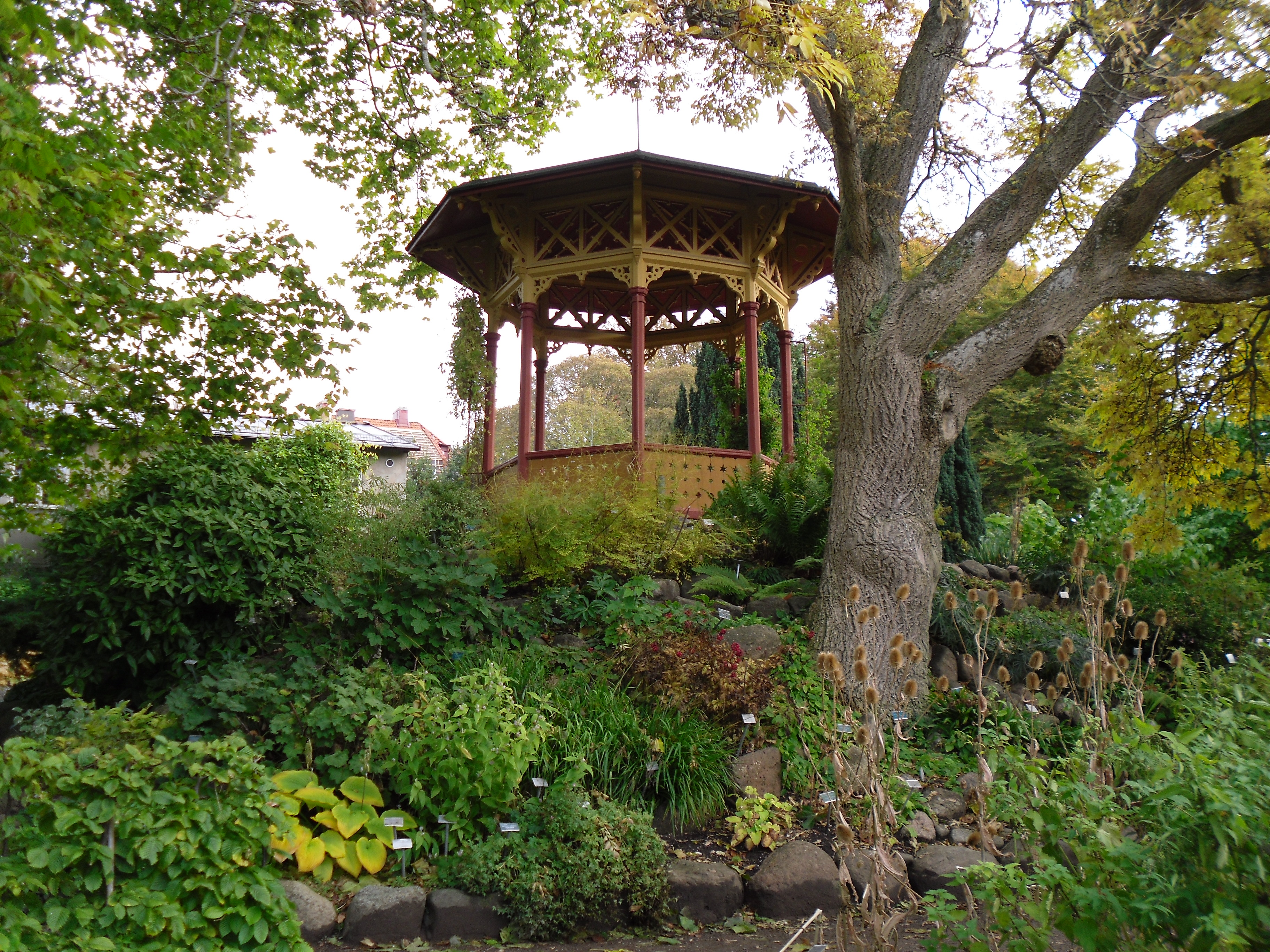 DBW Gardens, Visby, Sweden